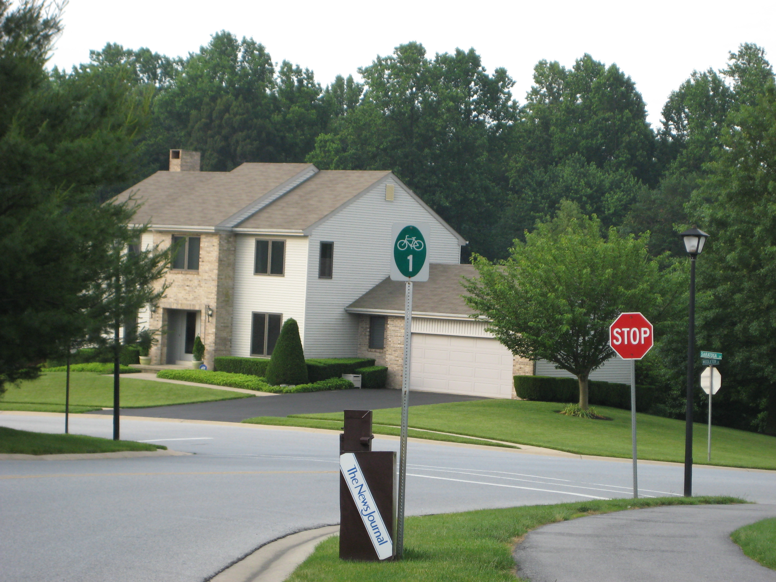 Picture of Delaware Bicycle Route 1 on Middleton Drive in Mendenhall Village.